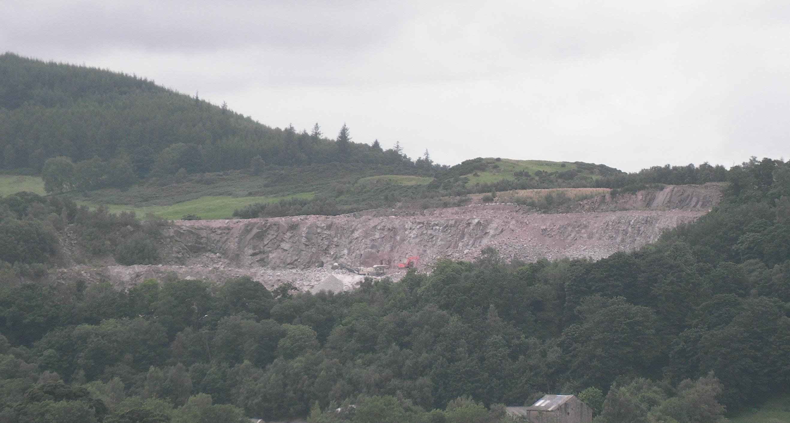 Craignair Quarry in Dalbeattie, Scotland. One of the towns most notable landmarks.